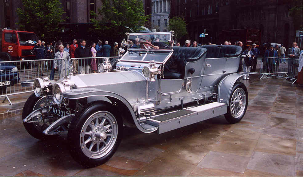 Rolls-Royce Silver Ghost photographed by myself, Malcolm Asquith, at the Centenary celebrations at the Midland Hotel Manchester in 2004